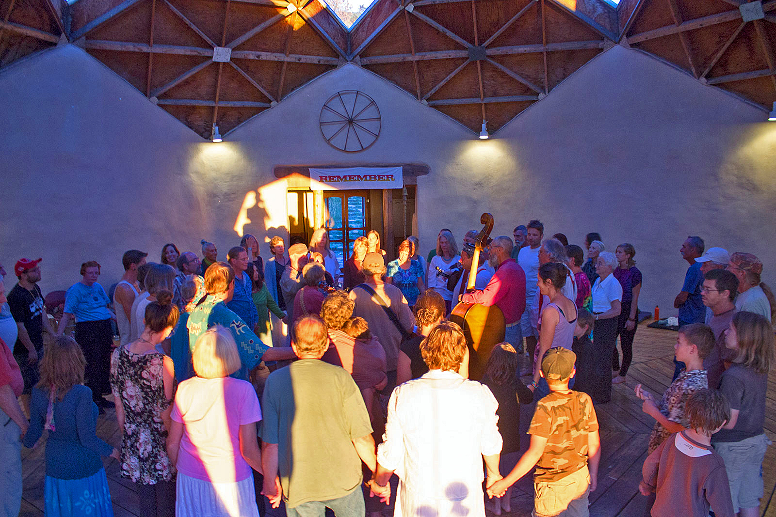 Photo by Bobby Burke